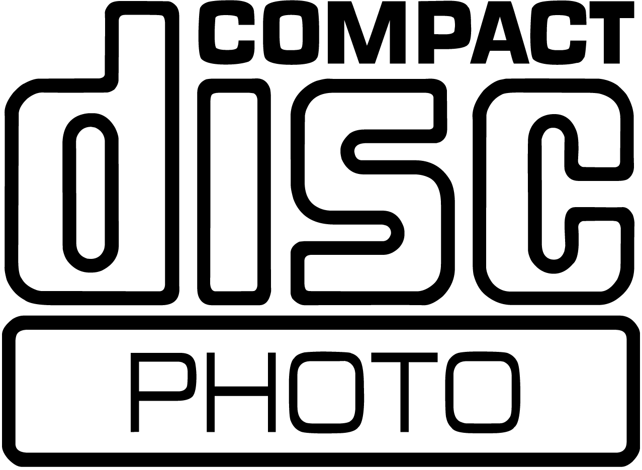 Photo CD Logo